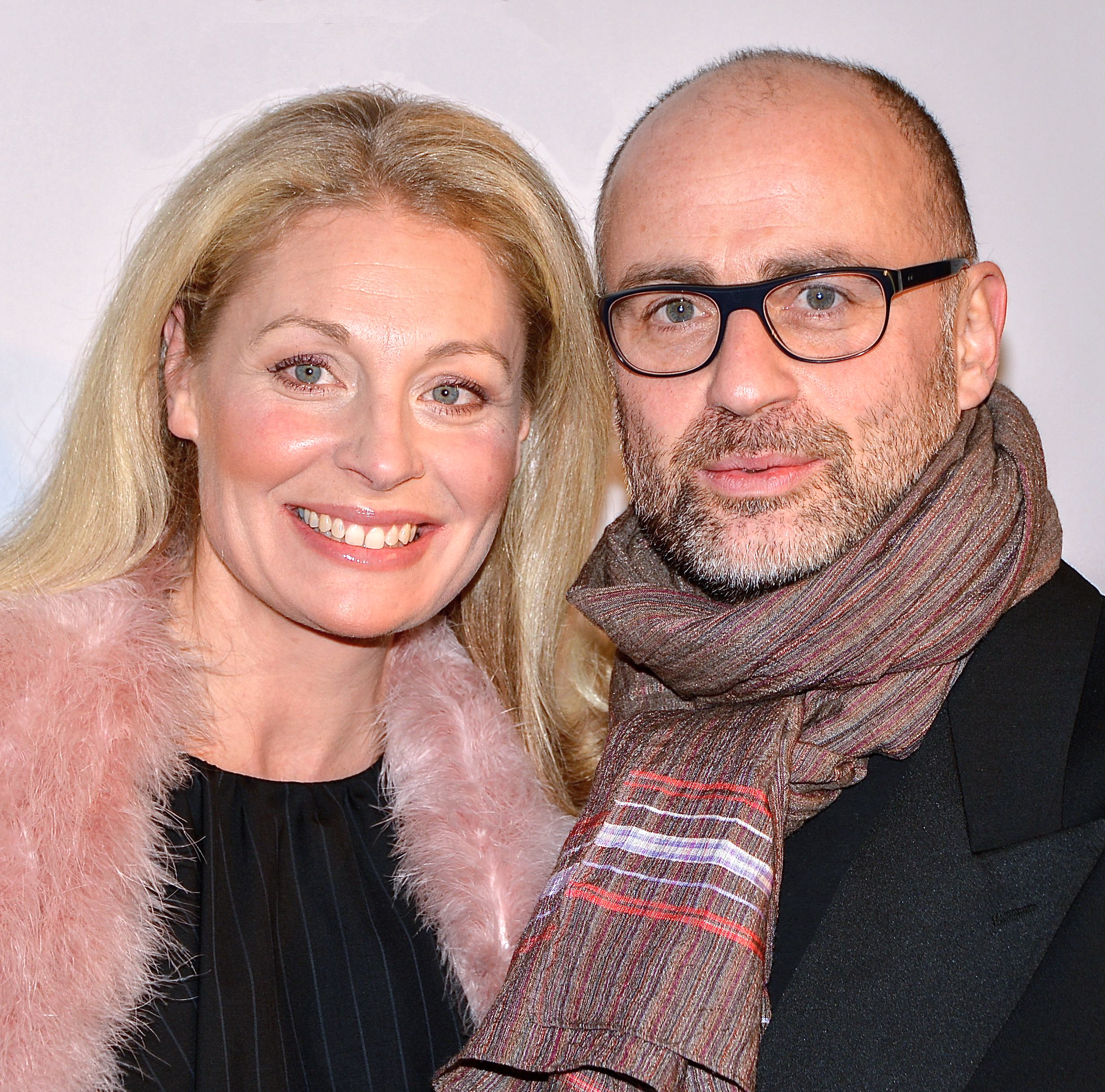 Per Graffman med hustru Johanna Graffman on Guldbaggegalan January 21, 2013 at Cirkus in Stockholm.